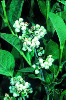 Lyonia ligustrina